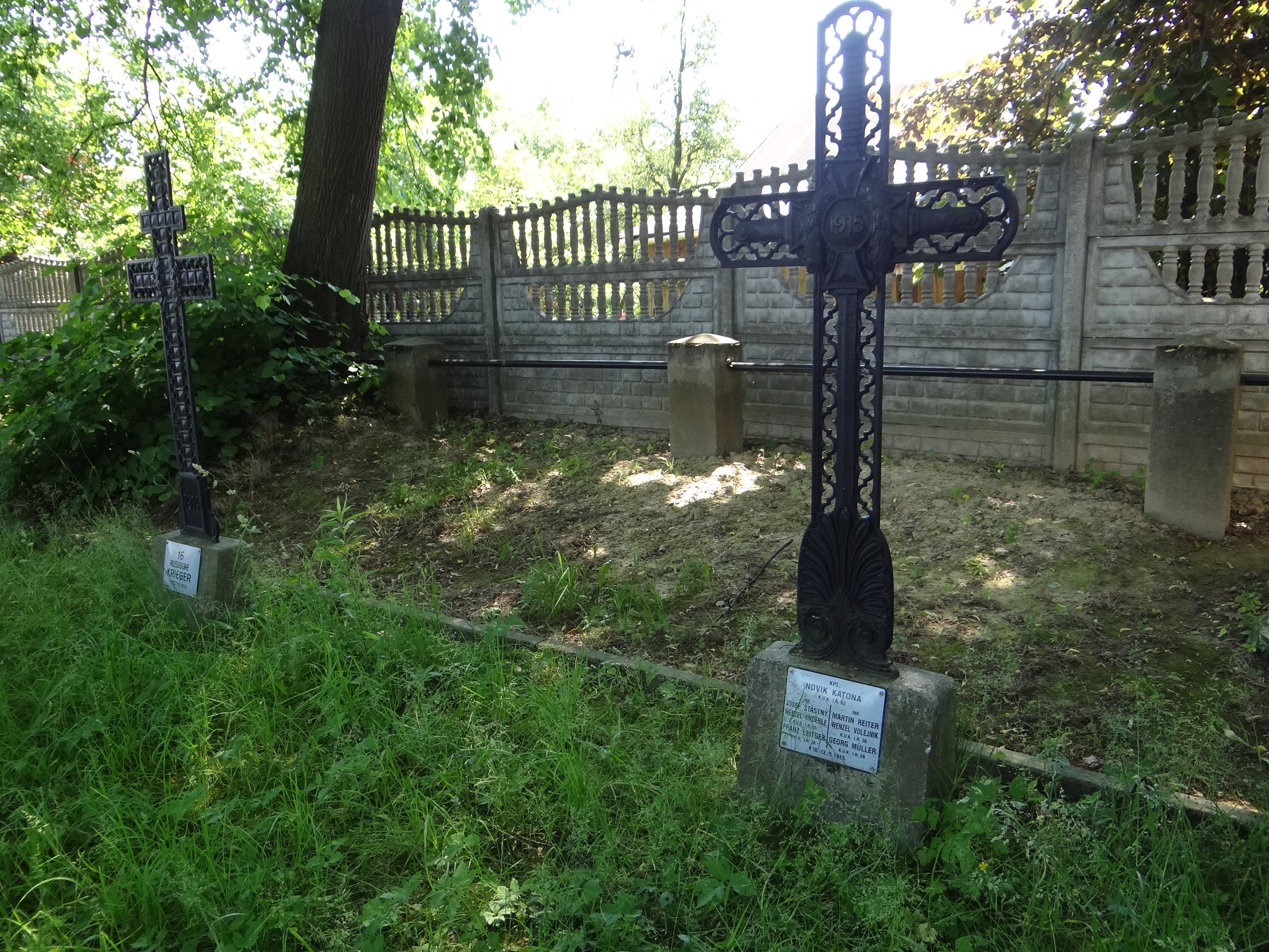 World War I Cemetery nr 160 in Tuchów